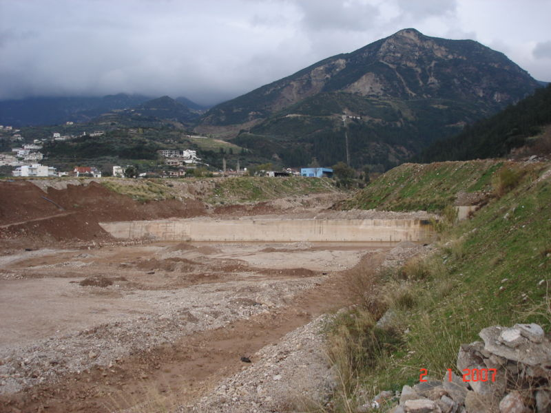 Lefkas river Greece